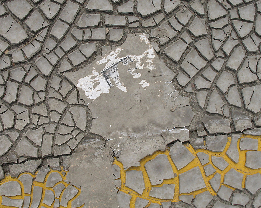 Amex in flood silt after Hurricane Ike, Galveston, Texas